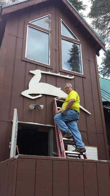 A White Stag is attached to the wall of the kitchen and dispensary commemorating the program's contributions to improving the camp facilities and their long-term agreement to use the camp.